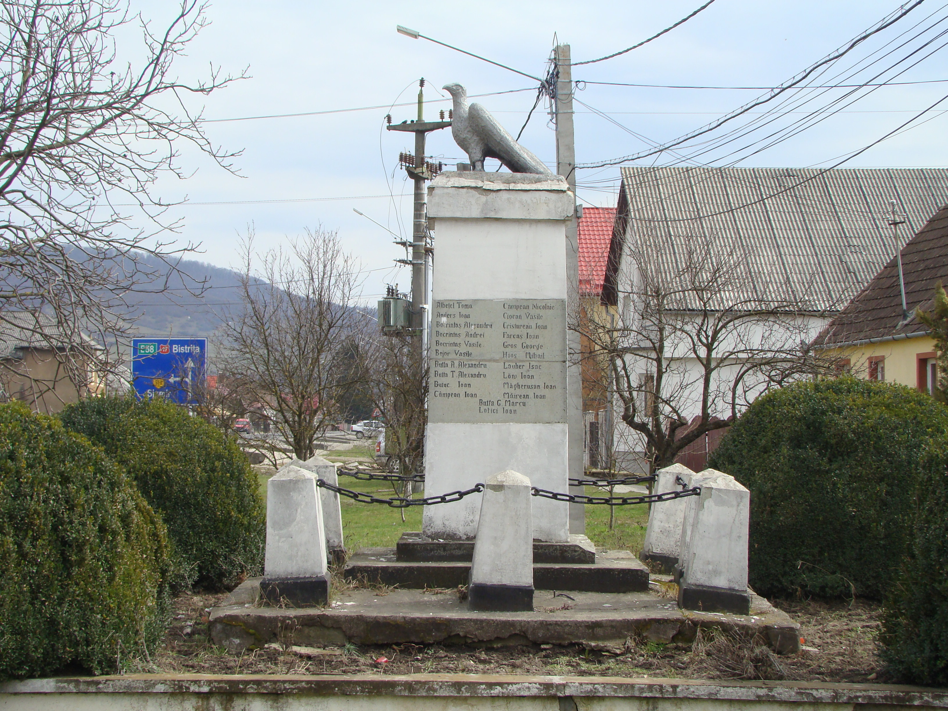 World War memorial in Șieu-Măgheruș, Bistrița-Năsăud county, Romania